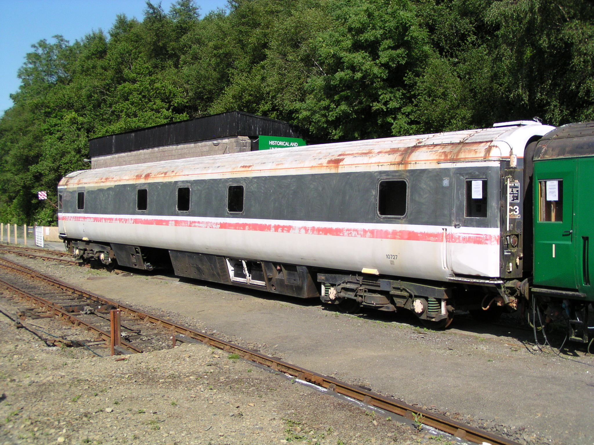 British Rail Mark 3 SLE no. 10727 at Meldon Quarry on 15 July 2006. Image by Phil Scott (Our Phellap)